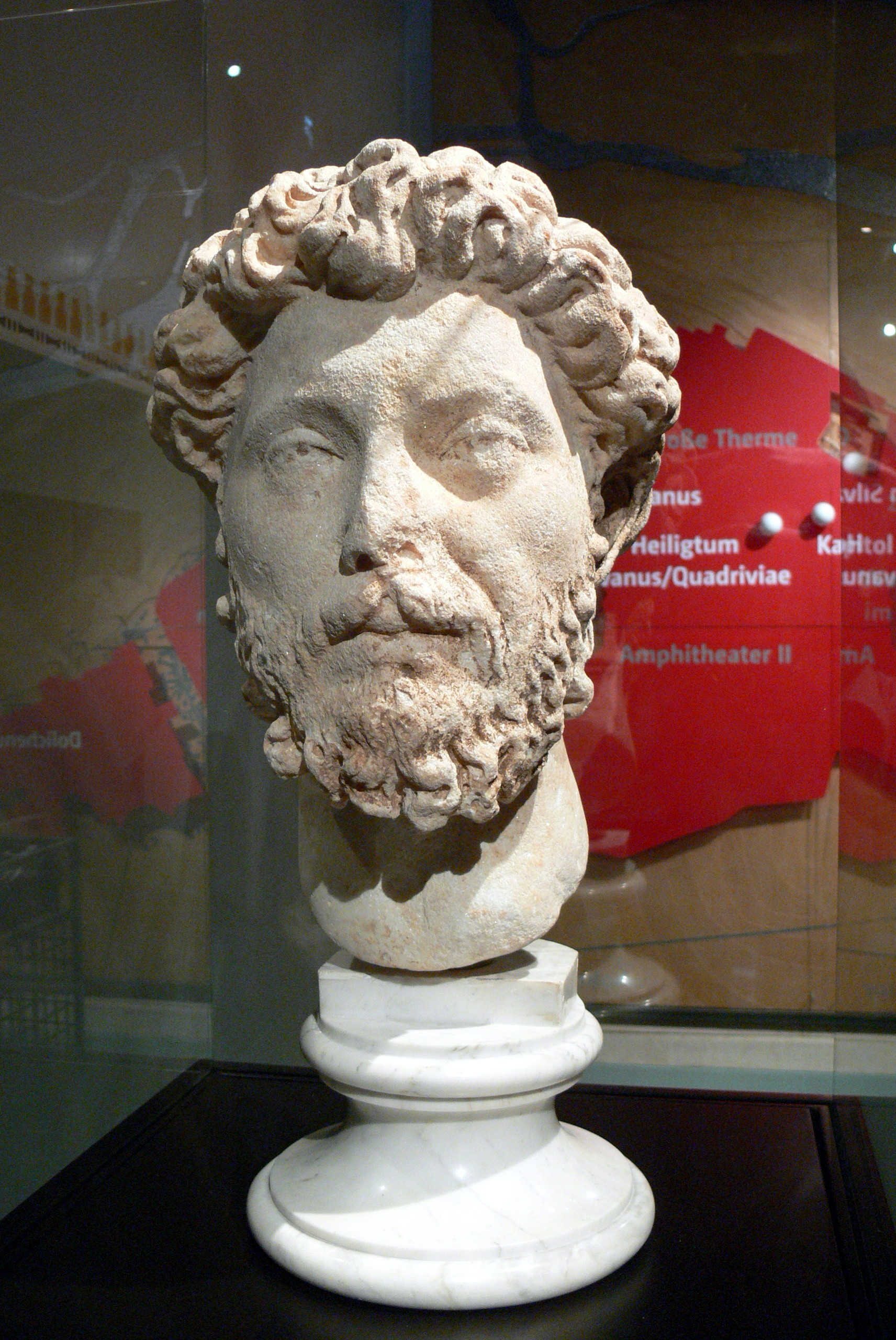 Museum Carnuntinum ( Lower Austria ). Bust ( 160s ) of ancient Roman emperor Marcus Aurelius.